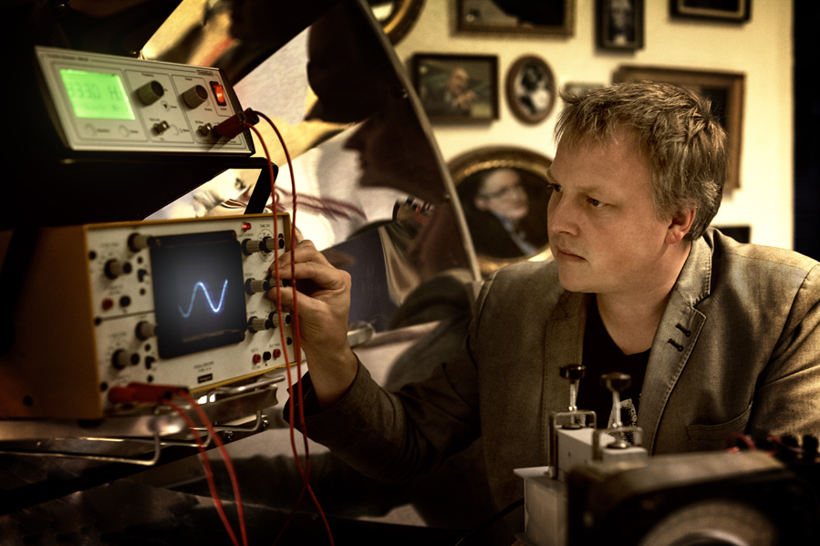 Musician Ste van Holm promo 2015